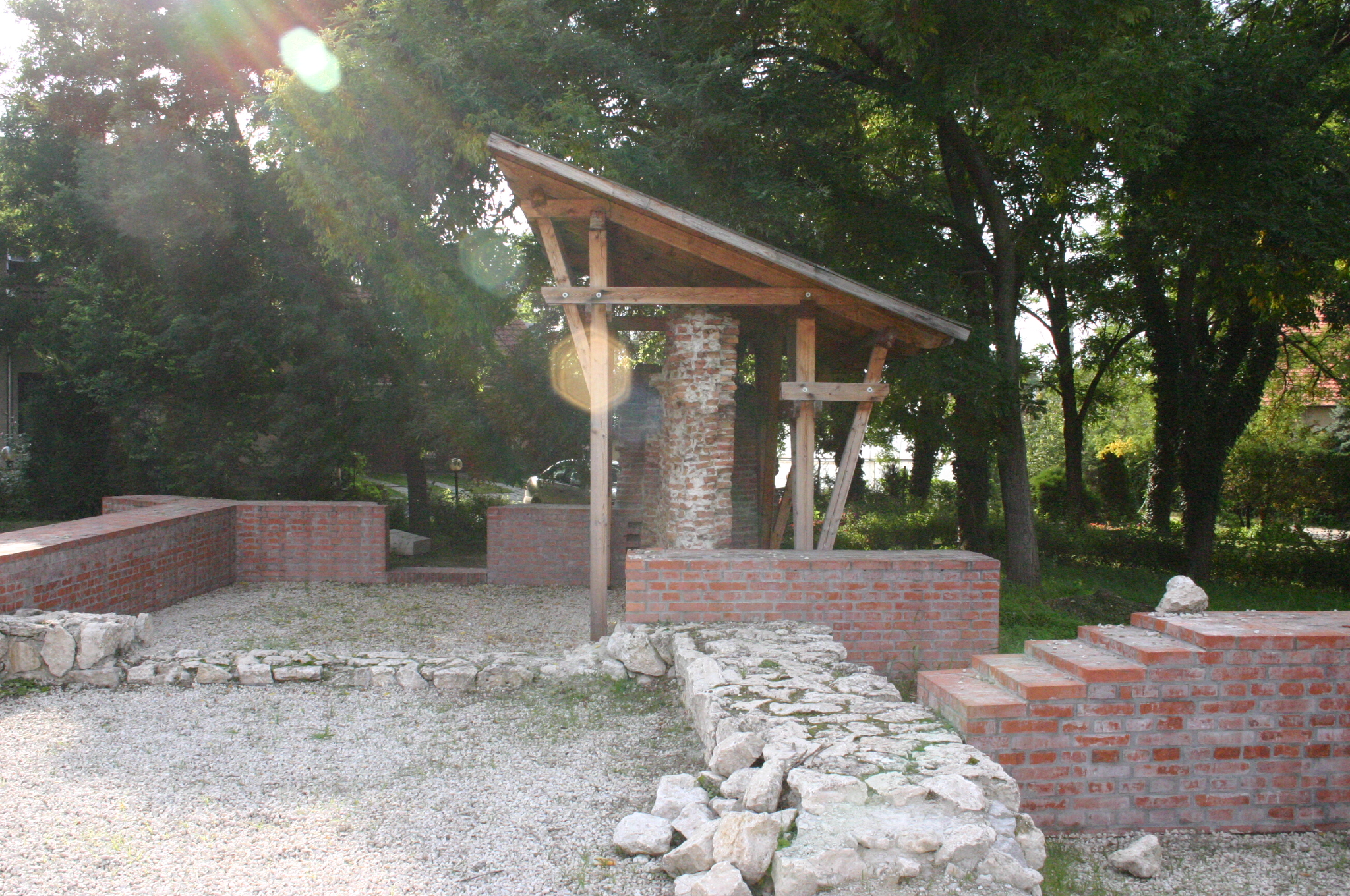 Ruins of church in Szőreg (Hungary)